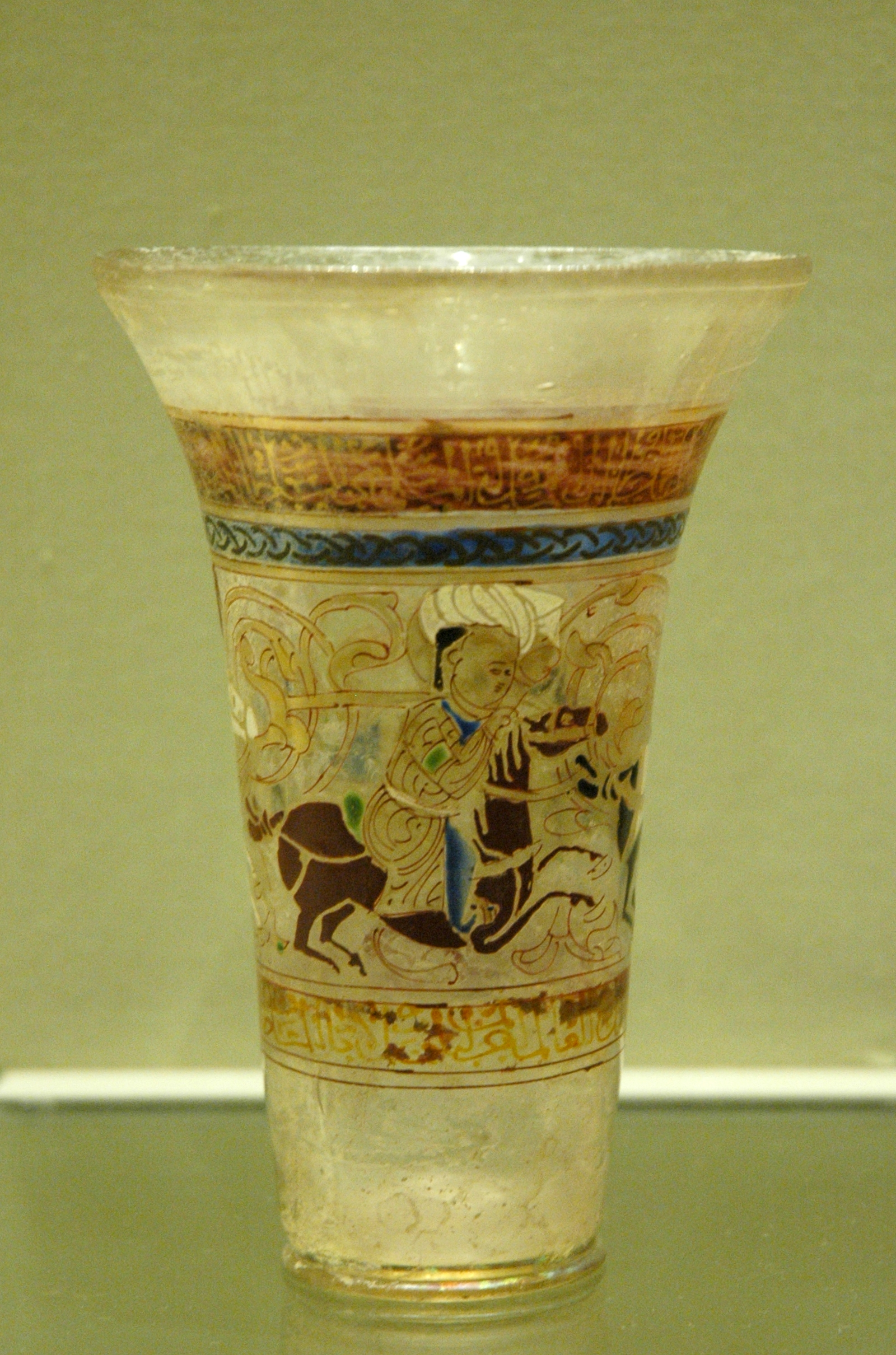 Beaker with riders.